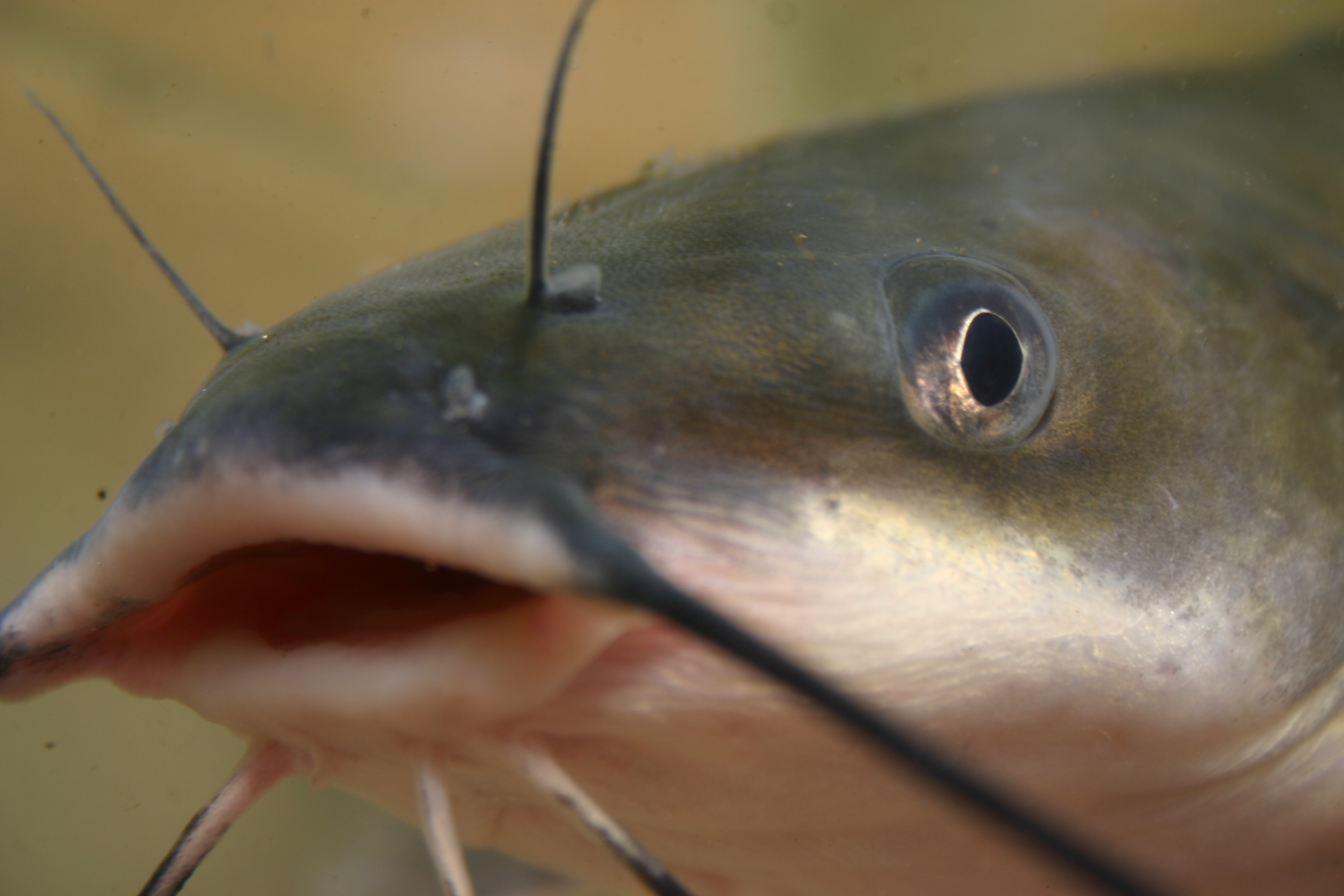 Taken in Rock Creek, DC Brian Gratwicke Category:Siluriformes images